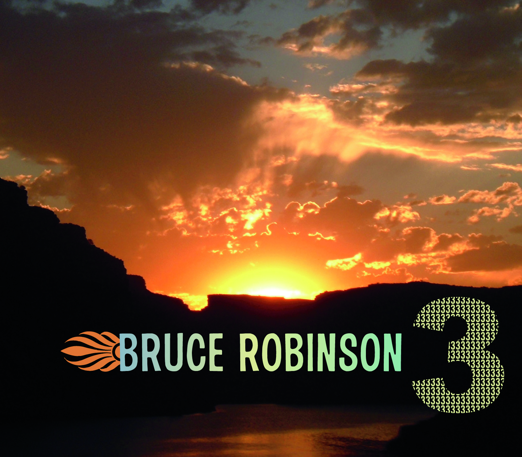 Cover of Bruce Robinson's 3rd music cd, "3"